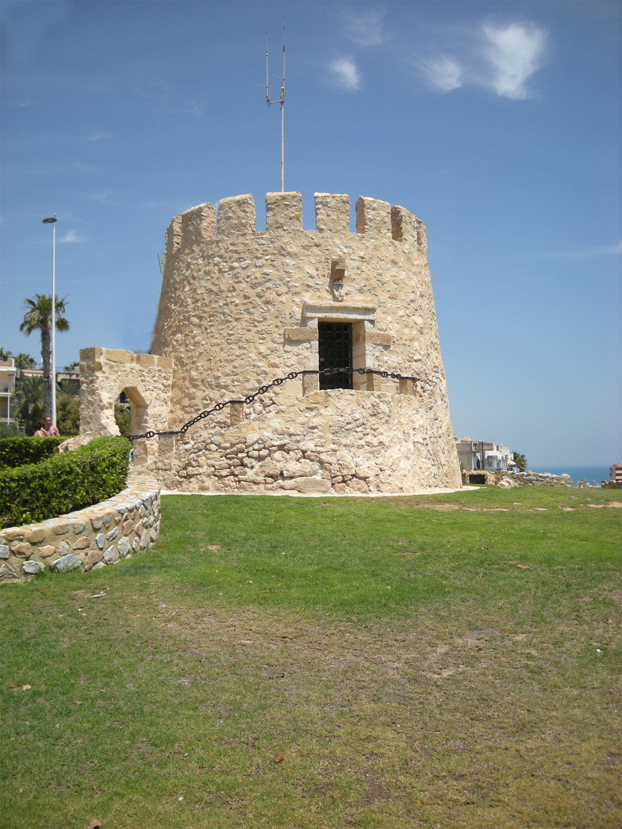 Cap Cerver tower in Torrevieja.